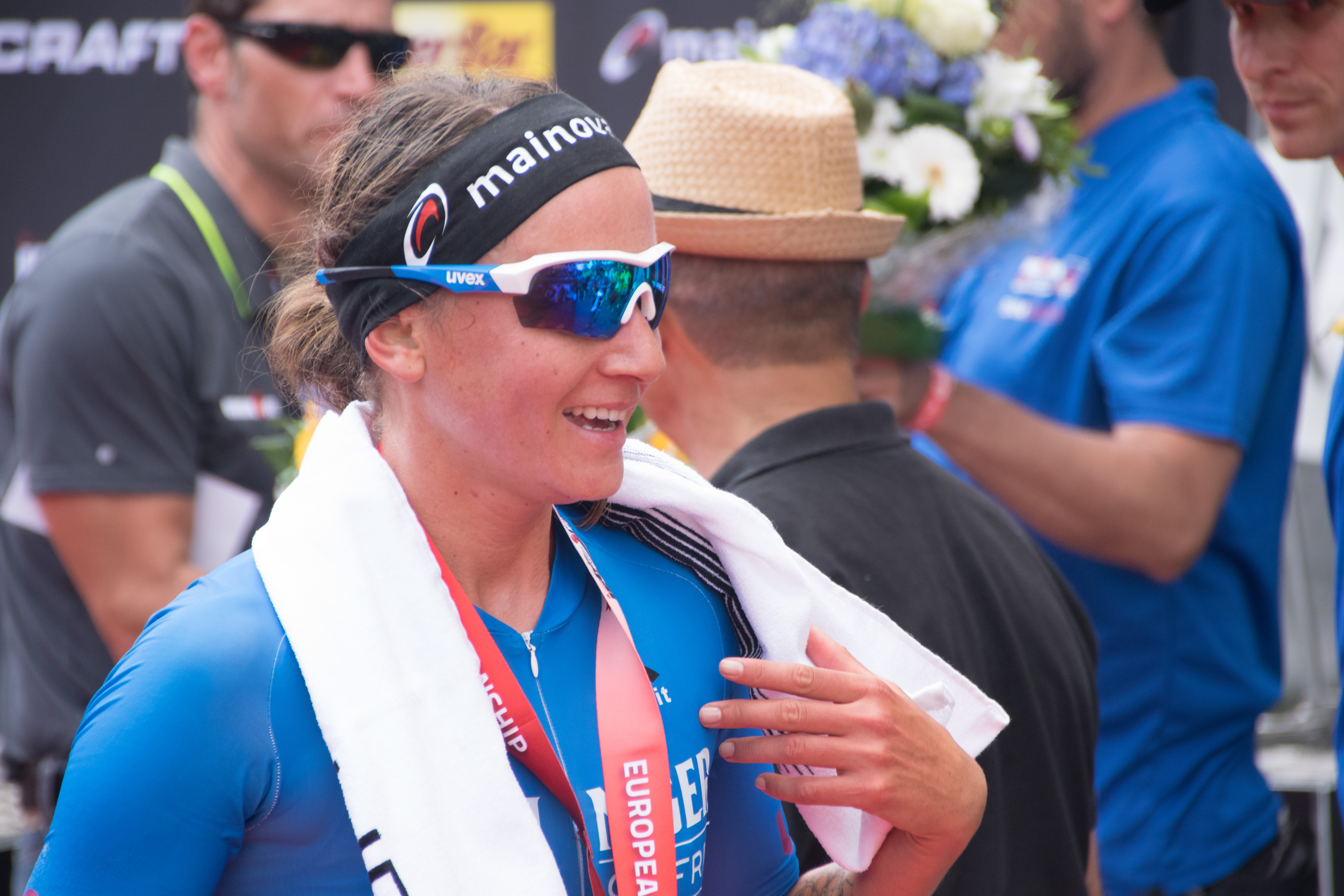 Ironman 70.3 Germany am 14. August 2016 in Wiesbaden